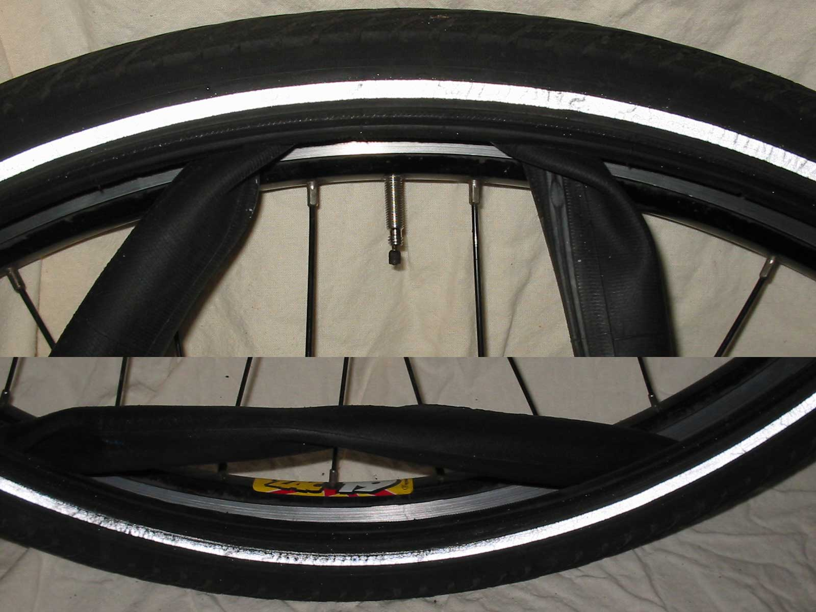 Removing a tube out of the gap between rim and released tire for a repair. Start at the valves opposite side (lower part).